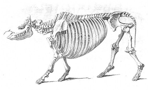 An 1821 drawing of the skeleton of the Sumatran Rhinoceros drawn by R. Hills. The drawing was sent to the Royal College of Surgeons in London by Stamford Raffles.